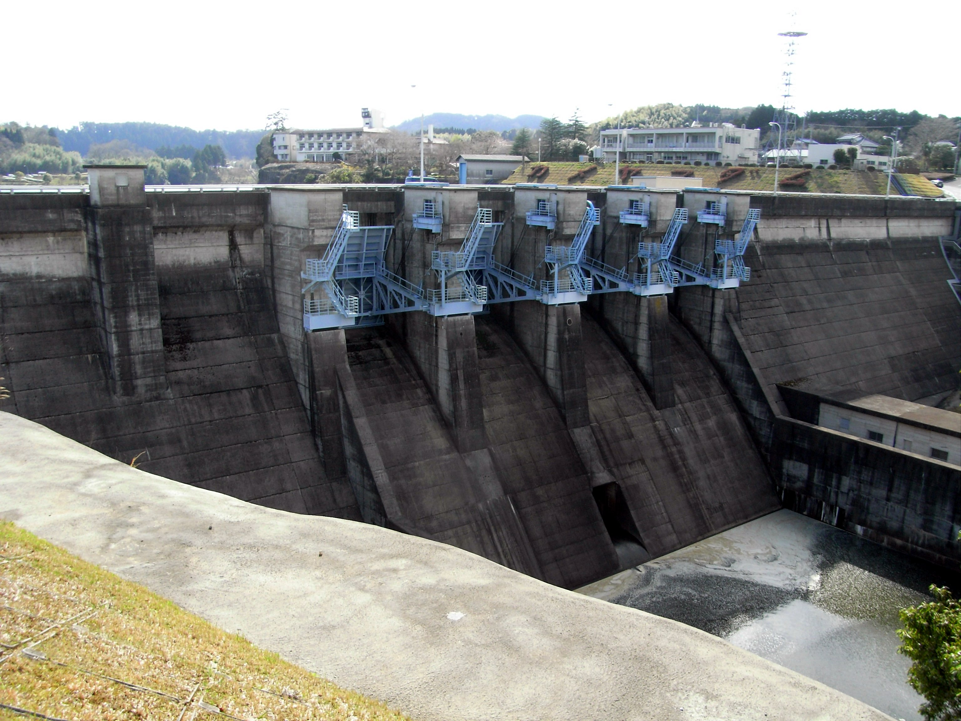 Kameyama Dam(Obitsugawa river/Chiba pref./Japan)